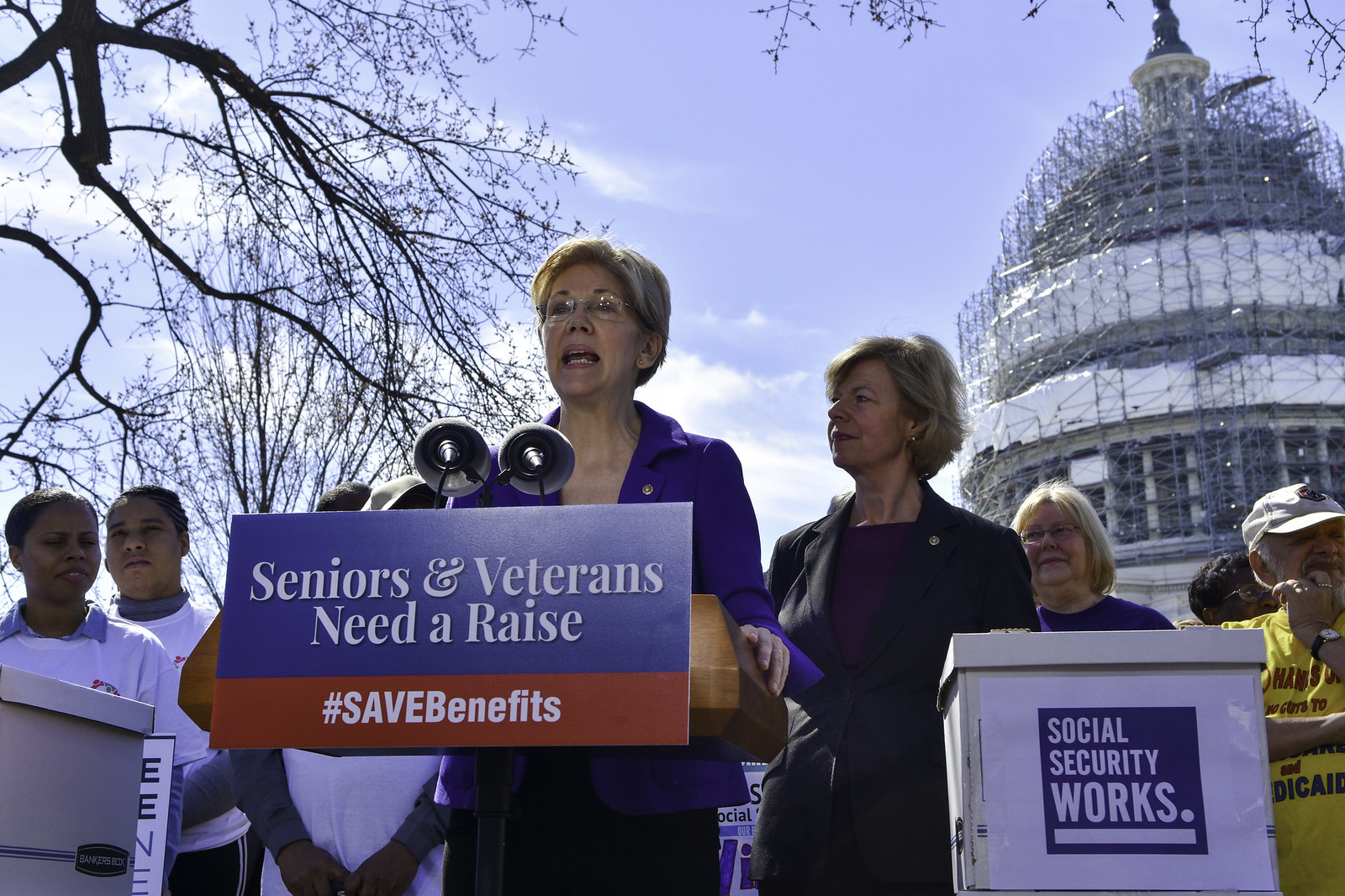 SAVE Benefits Petition Delivery (March 2016)